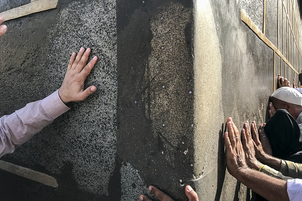 Hajj pilgrims -August 2018